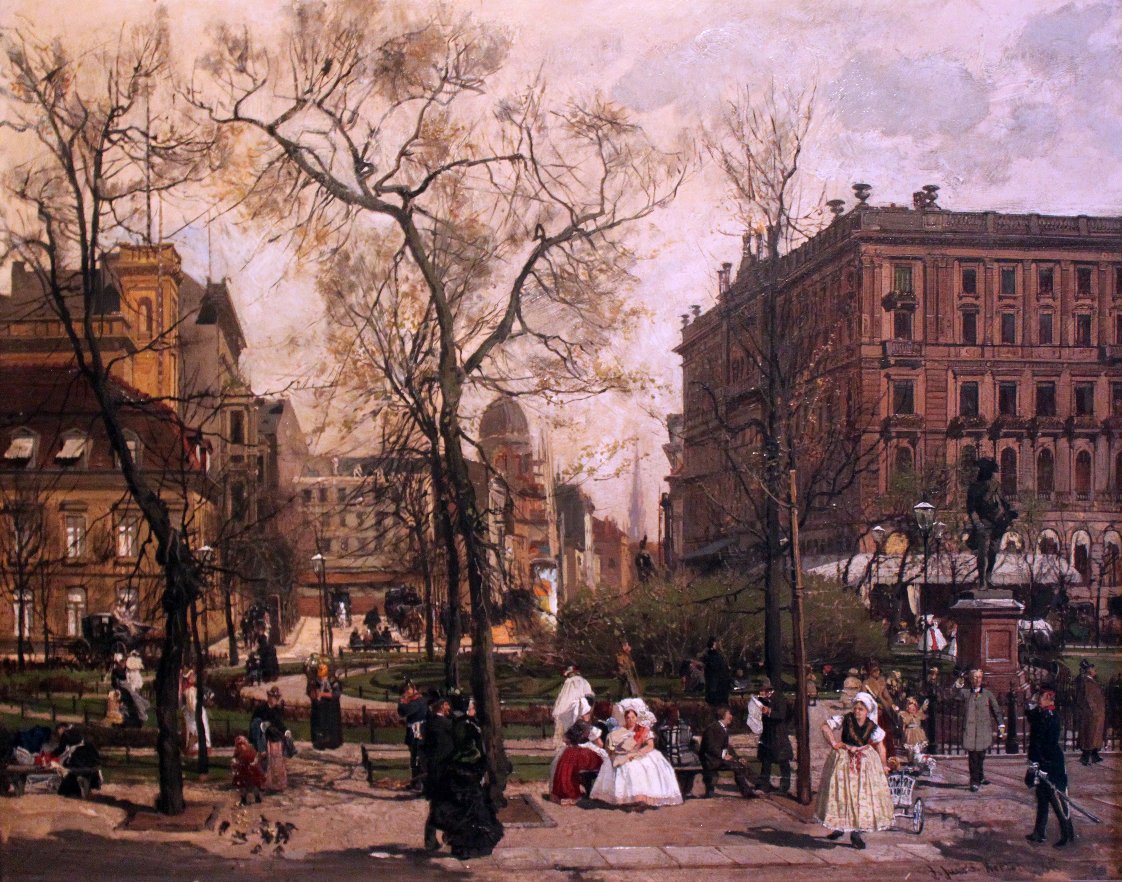 In the background the tower of the German Cathedral and the slender tower of St. Peter's Church.